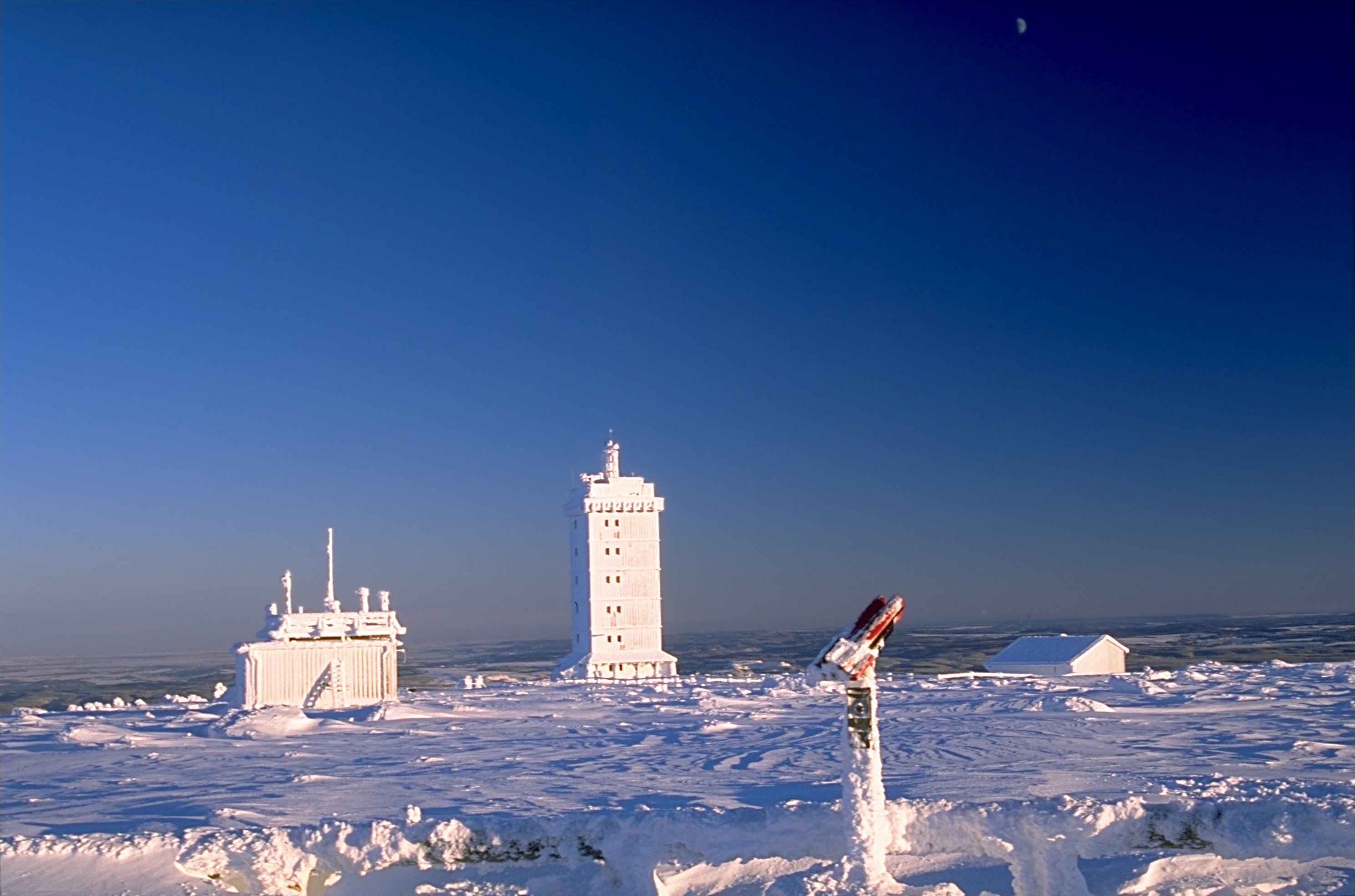 Brockenwarte from top in Winter Photo was taken using the following technique: Film: Lens: Minolta 2.8/28 Filter: none Body: Minolta Dynax 7 Support: Gitzo Monotrek Image with Information in English Bild mit Informationen auf Deutsch